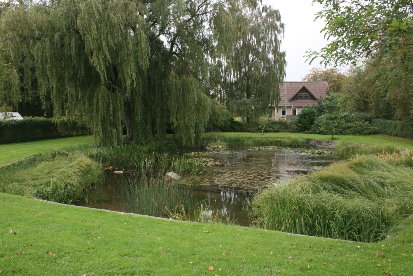 A small pond used as a reservoir for fire-extinction.